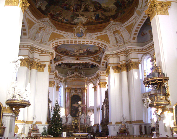 Interior of the former abbey church of Wiblingen, Ulm, Germany